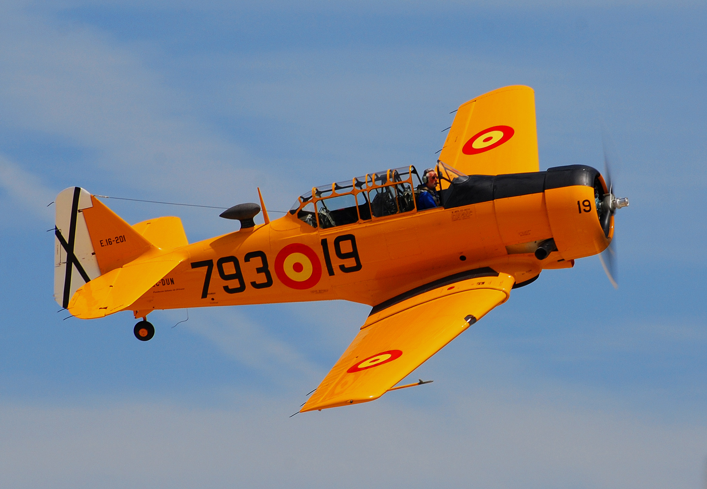 North American T-6G Texan (EC-DUN)